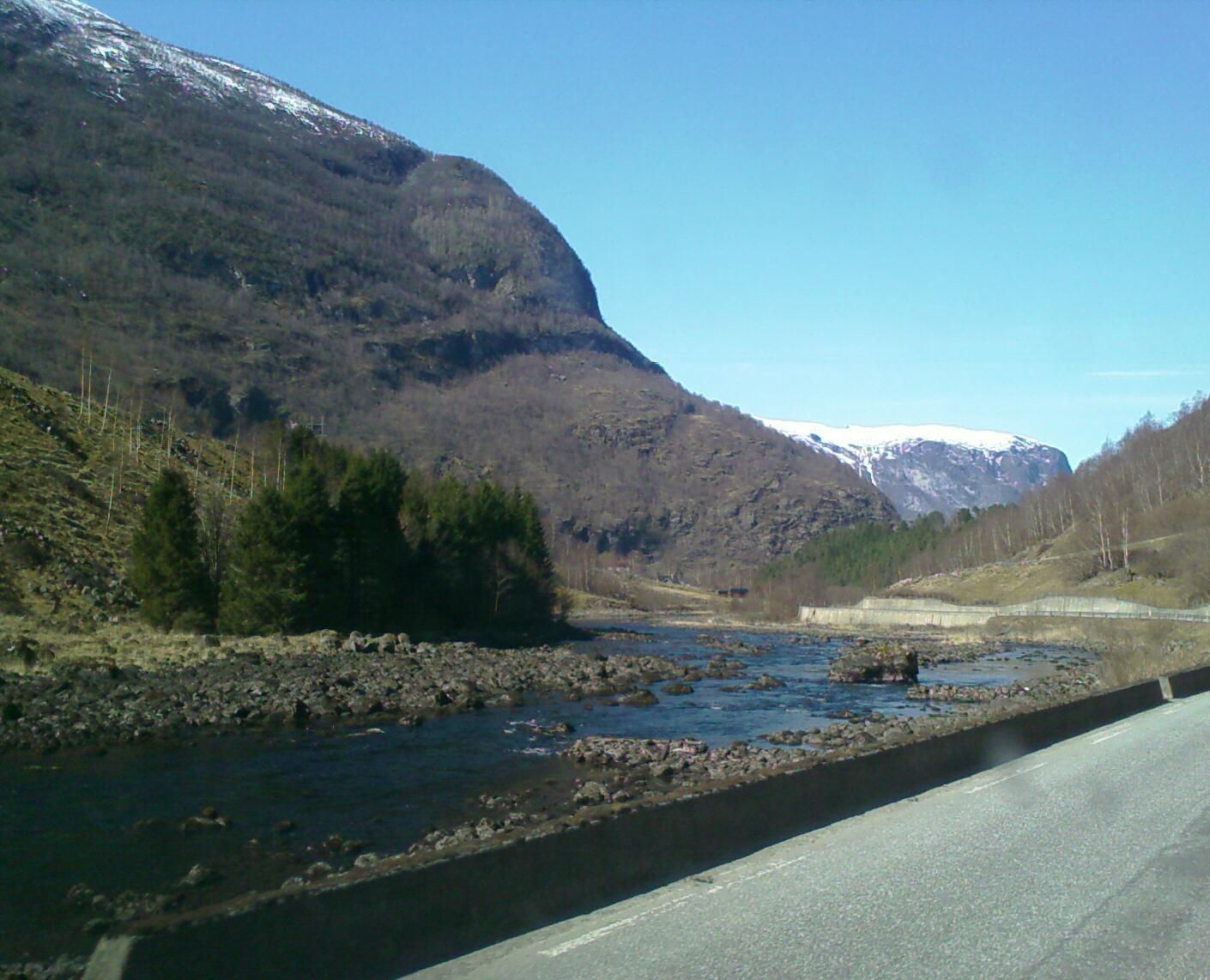 The river Aurlandselva between Vassbygdvatnet and Aurlandsvangen.